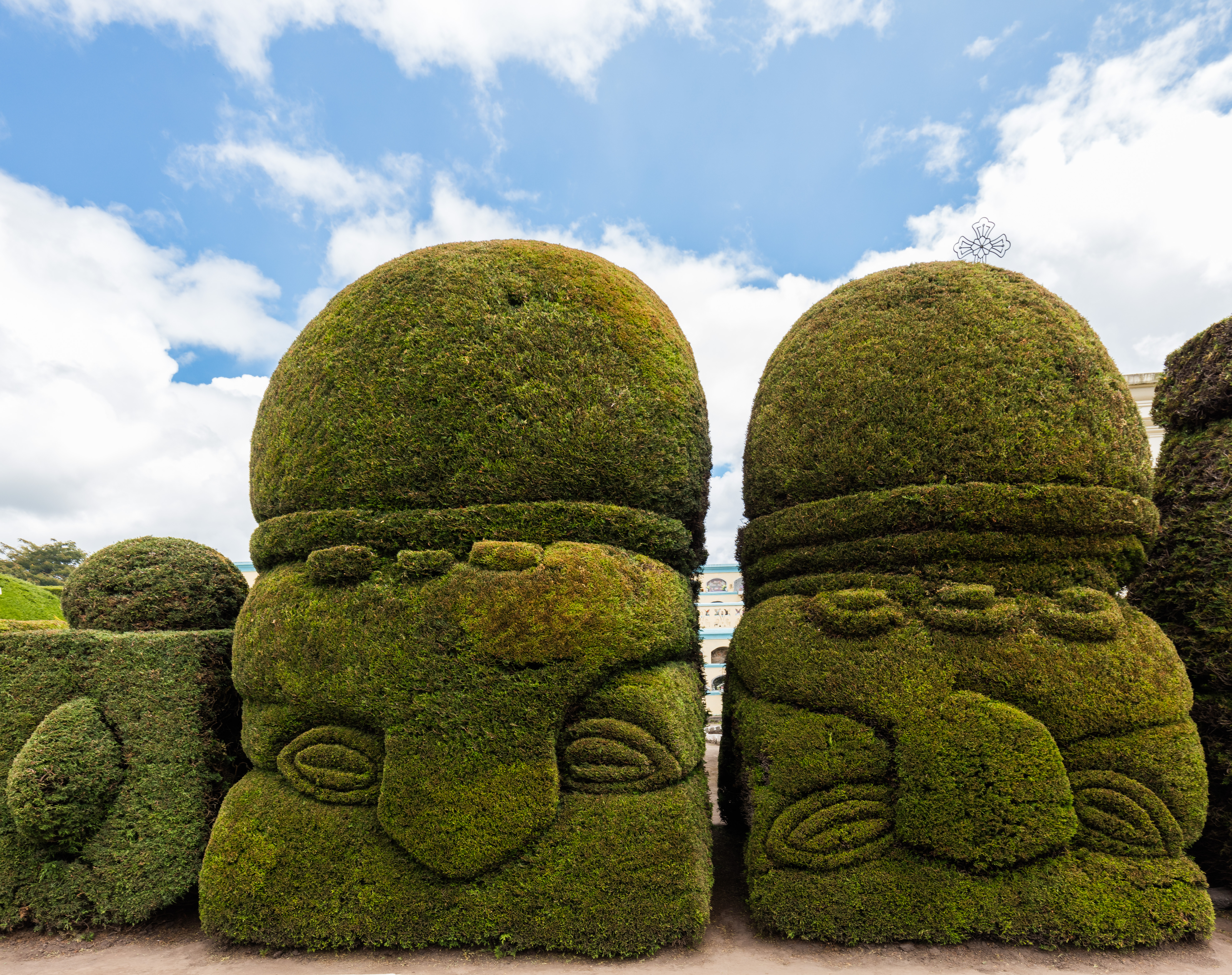 Cemetery, Tulcán, Ecuador